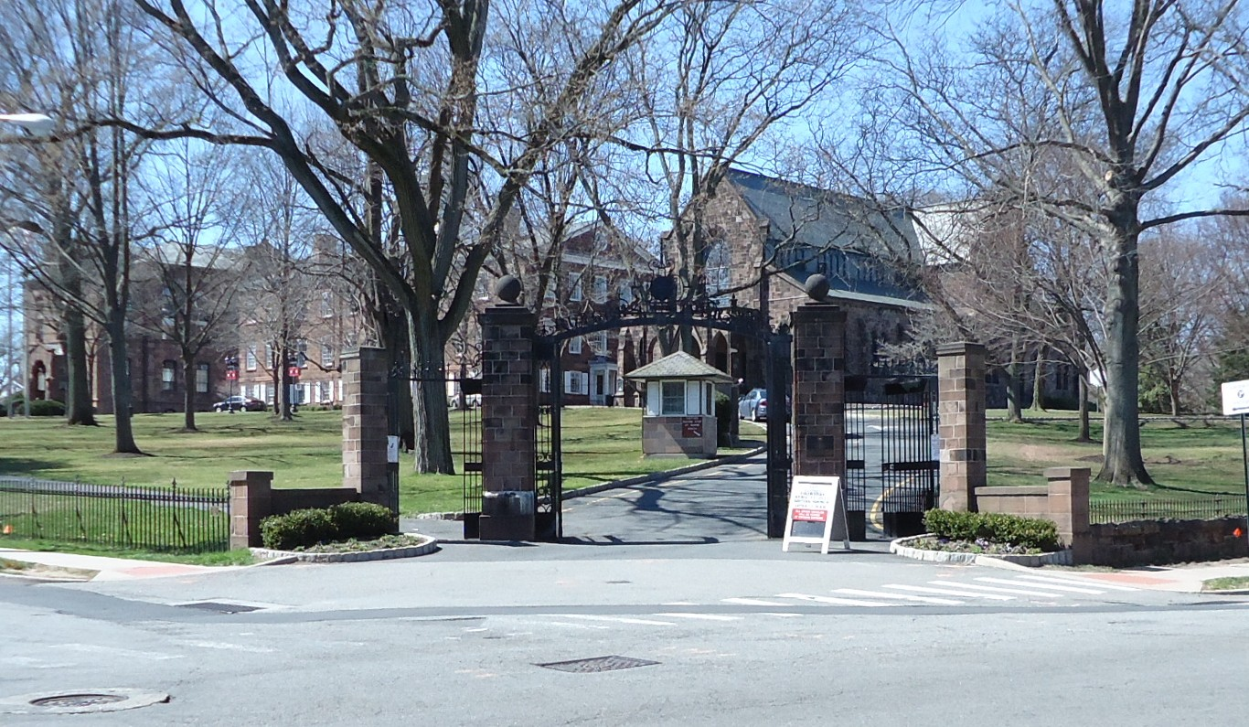 Archway entrance to Rutgers University to the College Avenue campus.